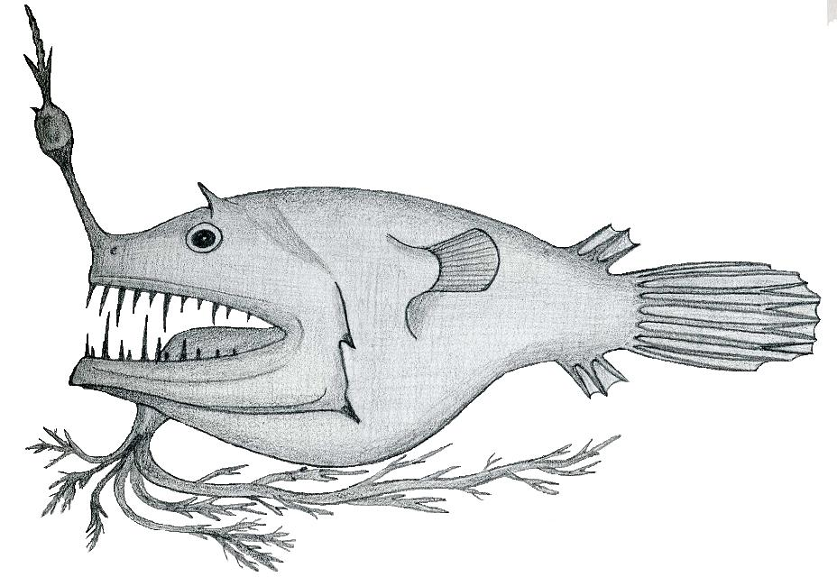 Linophryne arborifera Illustrated by Ray Simpson